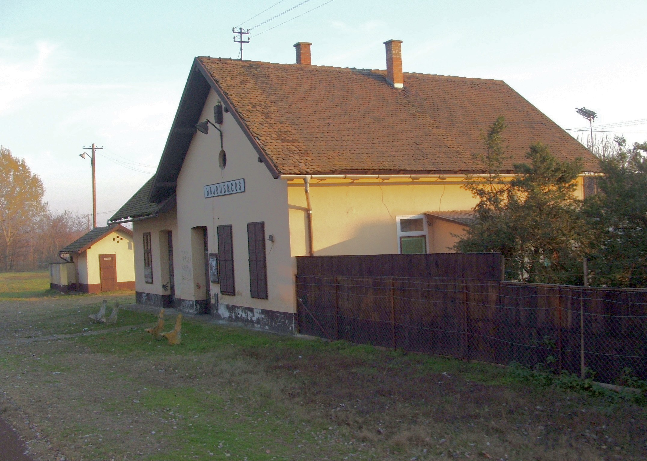 Hajdúbagos train station (Hajdú-Bihar county)